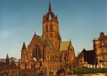 Thomas Coats Memorial Church in Paisley